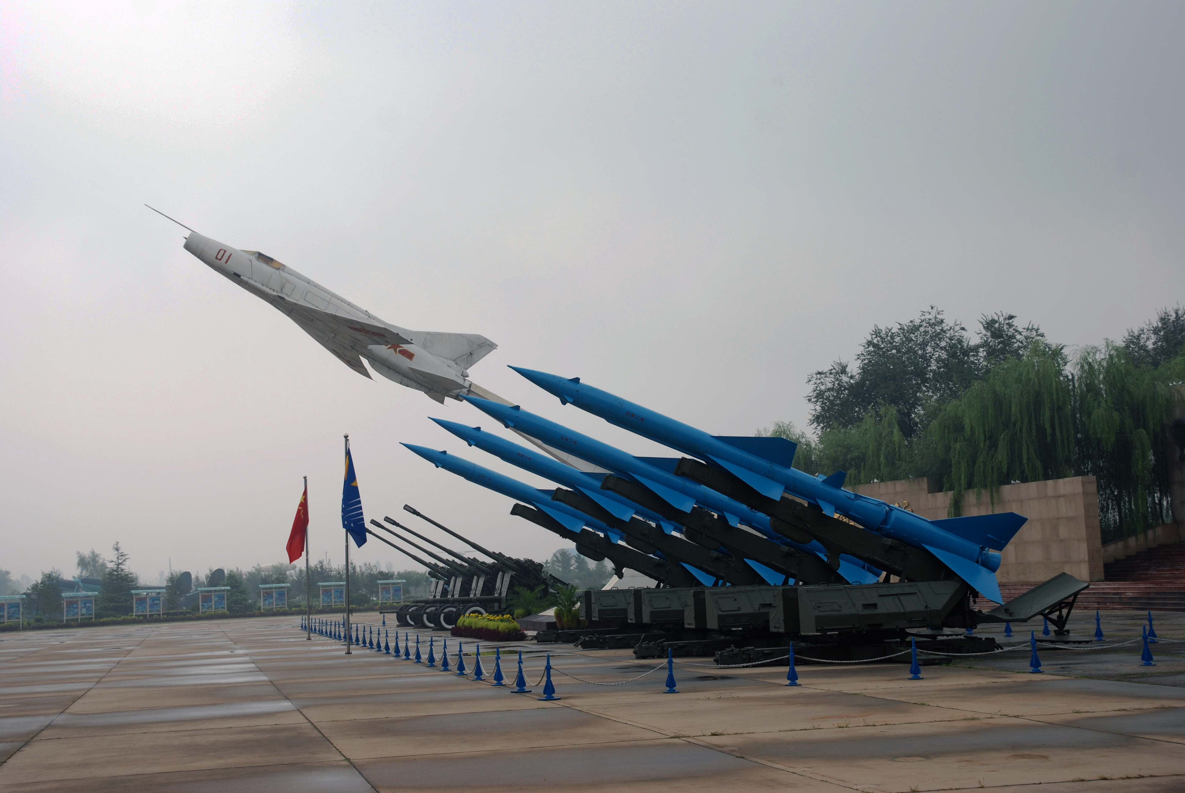 Nanchang J-12 on display at the China Aircraft Museum, Sept 2008